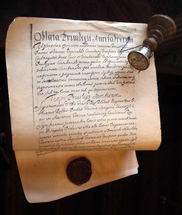 Copy of the document (pryvilej) given by Polish king Zigmunt III to the Lviv jewellers guild in 1600. The original of the stamp of the guild. Stored in Lviv History Museum.